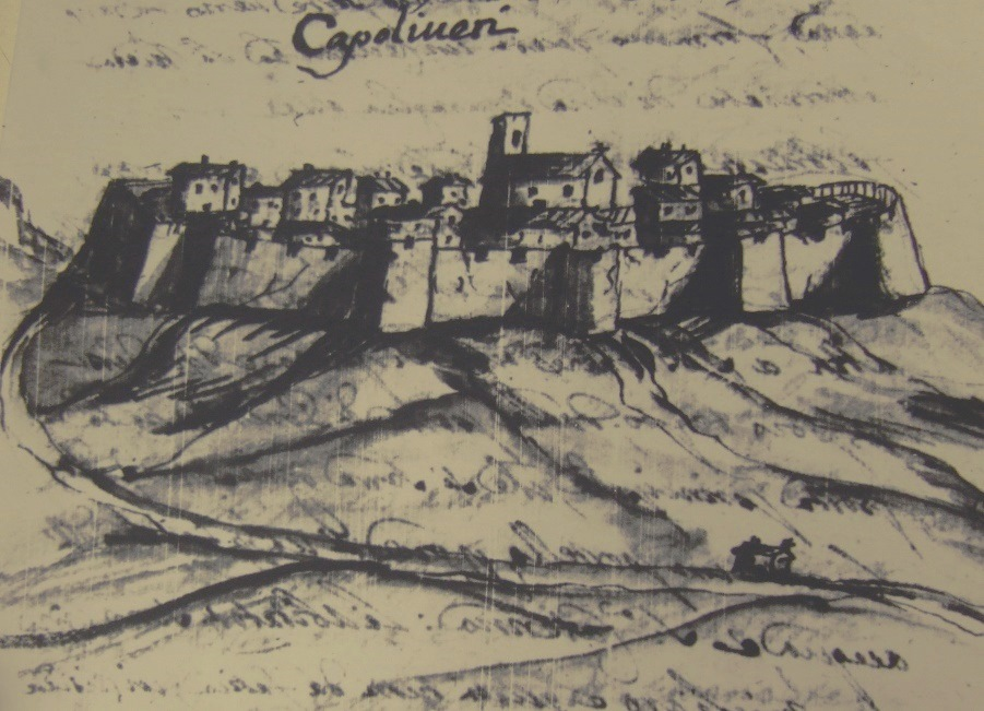 Capoliveri